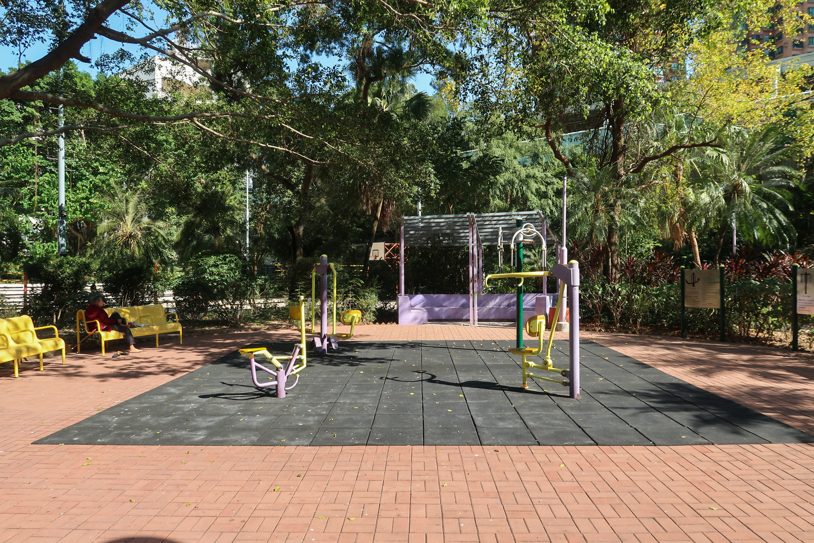 Yue Tin Court Fitness Zone